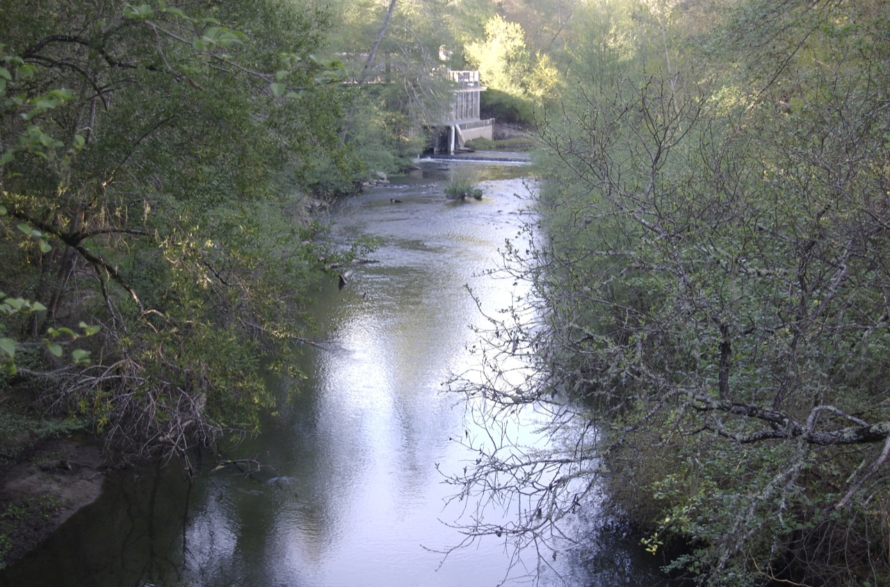 San Lorenzo River at Felton entrance to Henry Cowell Redwoods State Park, Santa Cruz County, California.